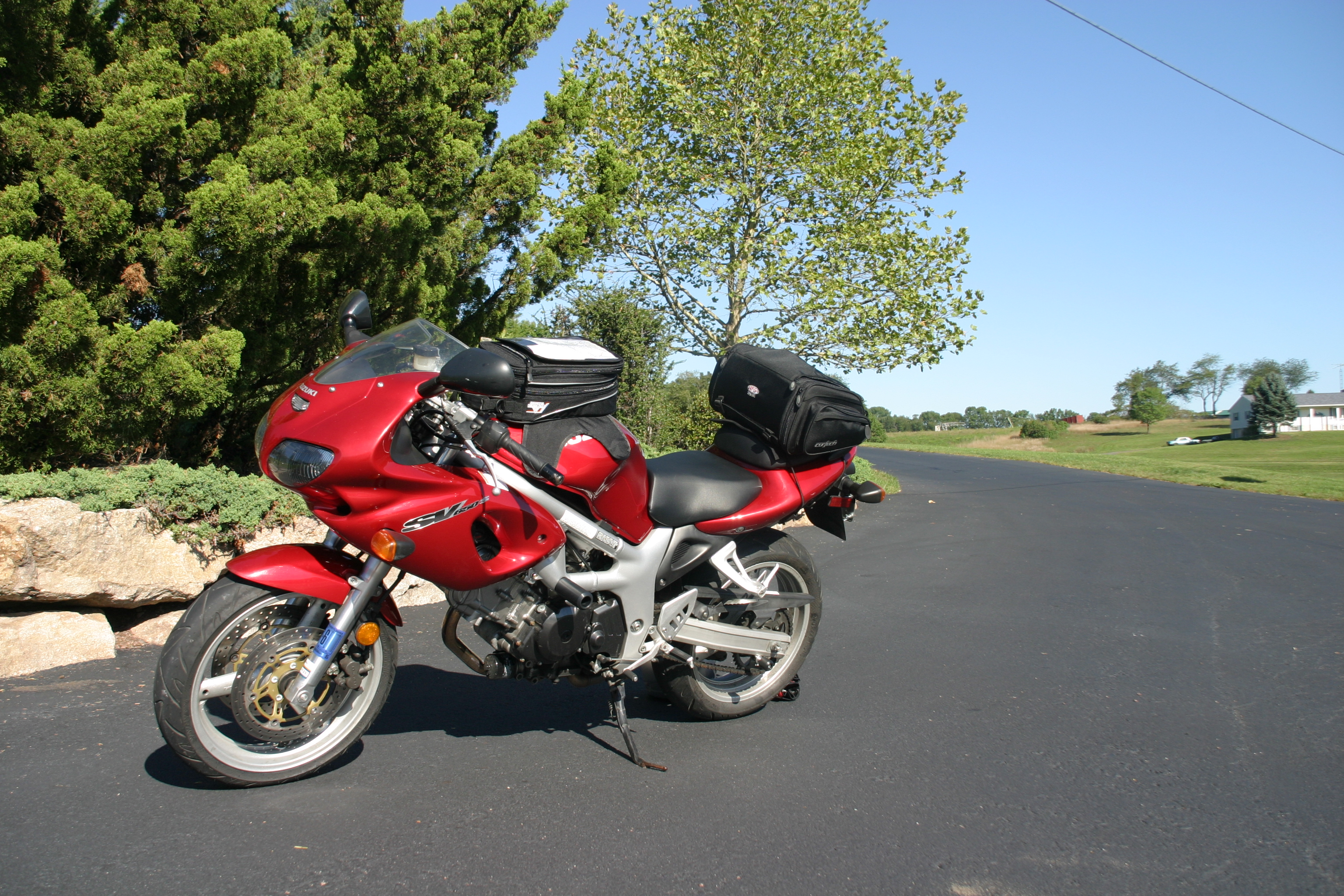 2001 Suzuki SV650s motorcycle with gear in the Dutch East Country area of Pennsylvania, 5 miles from Hawk Mountain.